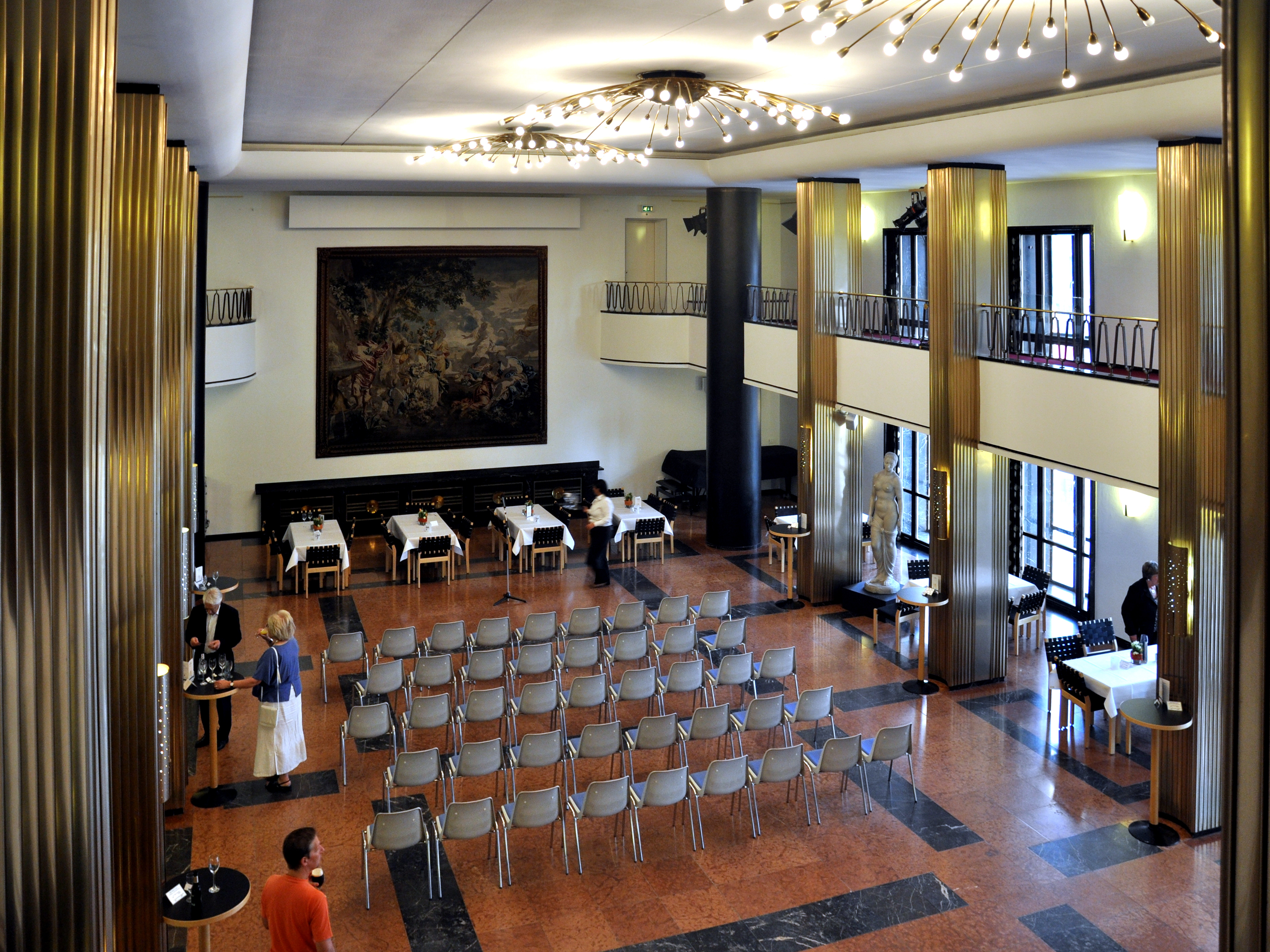 Theater Duisburg, Foyer